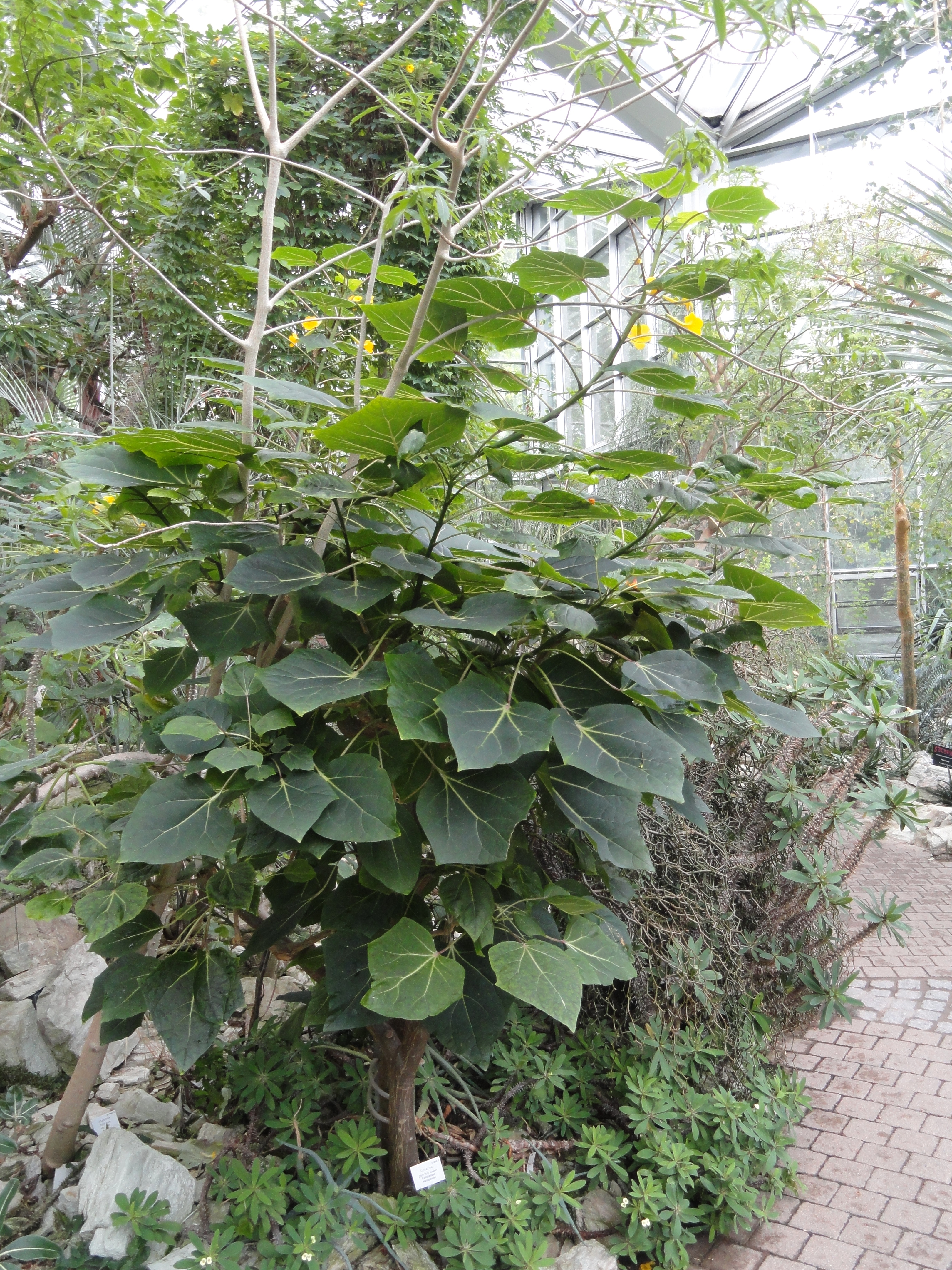 Botanical specimen in the Palmengarten, Frankfurt am Main, Germany.